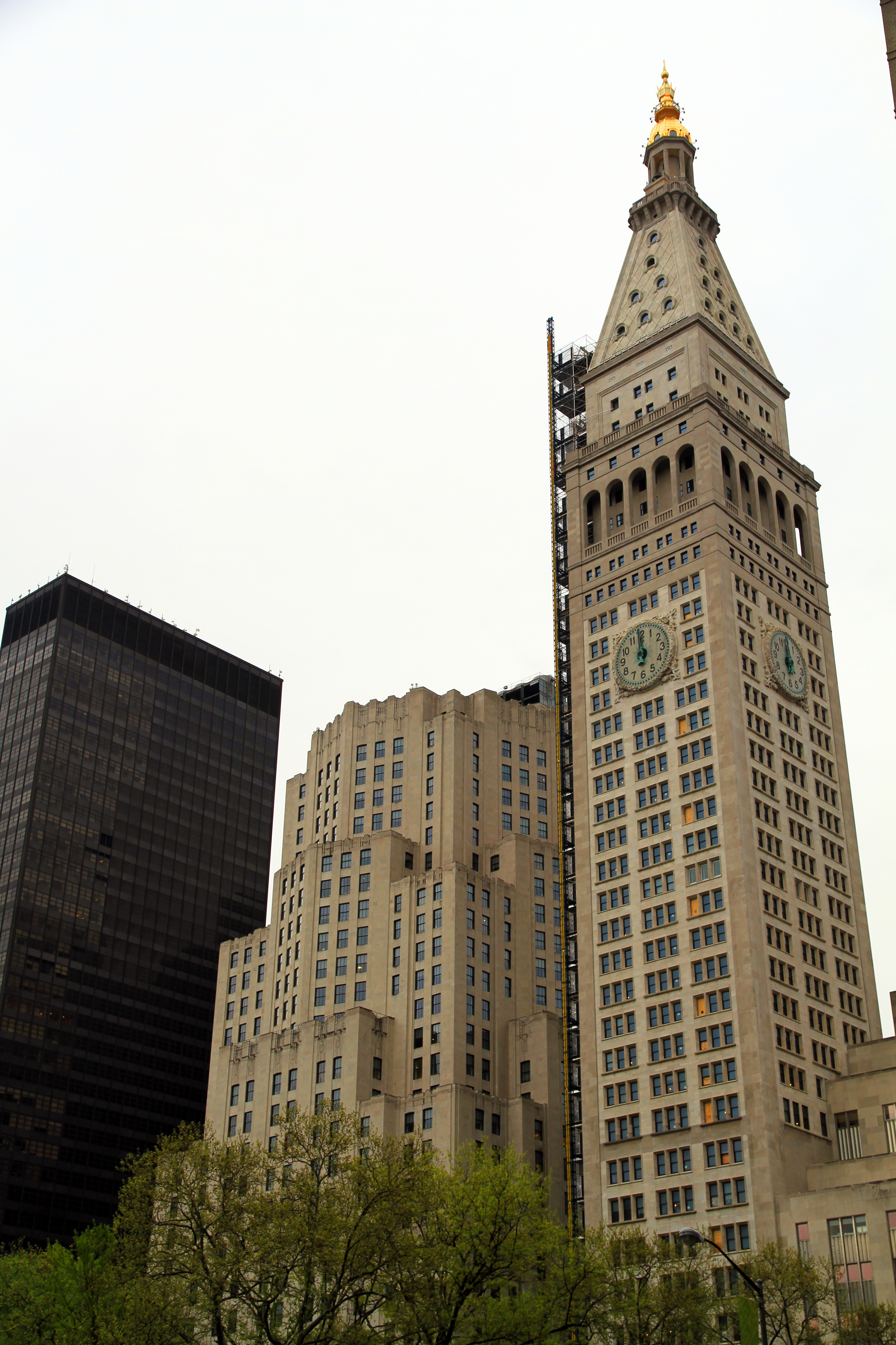 The Met Life Tower